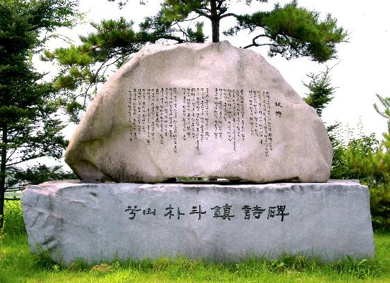 The monument to Korean poet Pak Tu-jin (1916-1998) at his birthplace in Anseong. It is outside the municipal library and is inscribed with his poem "Nostalgia".